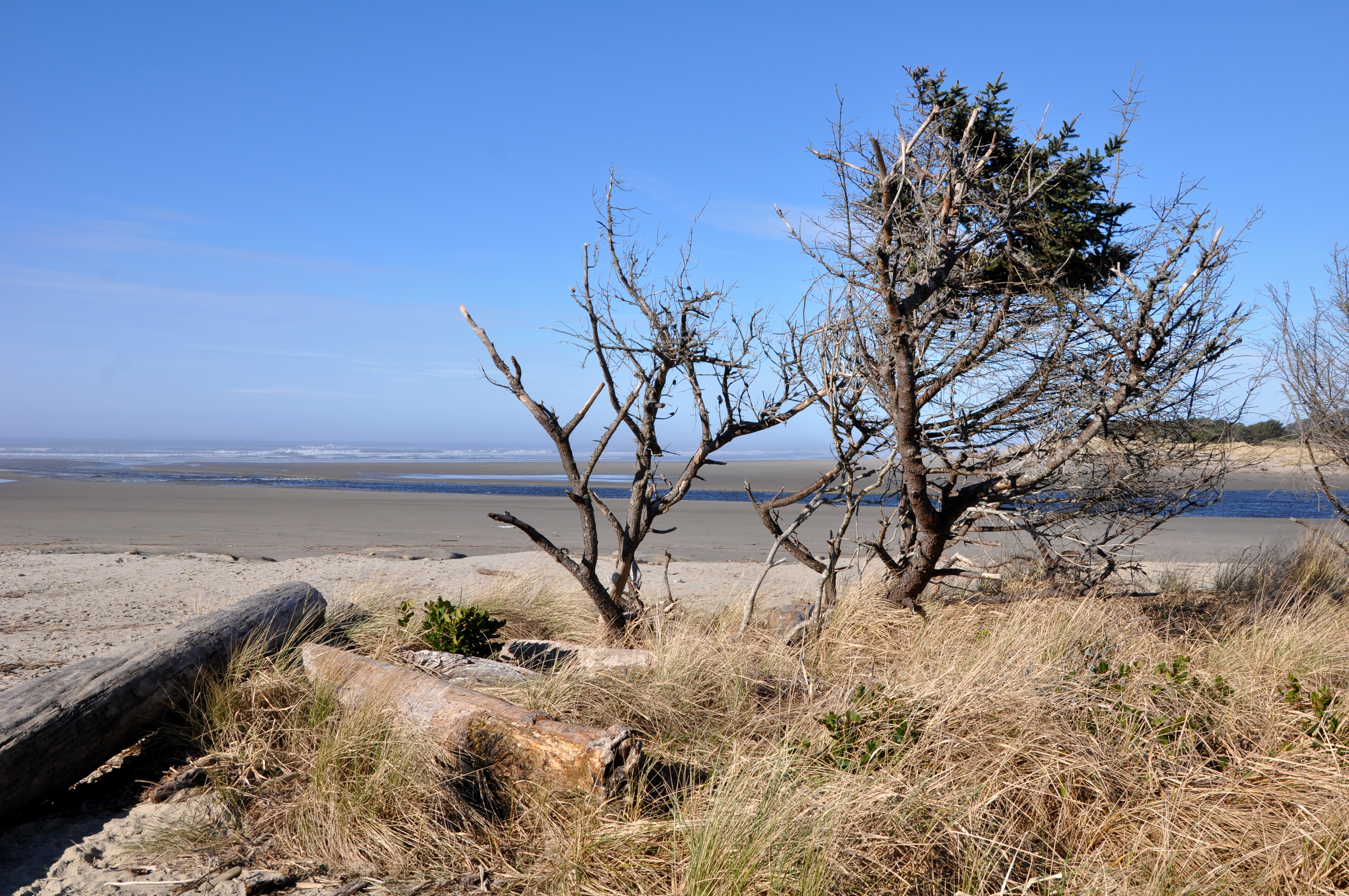 Pacific Ocean beach at Ona Beach State Park south of Newport in the U.S. state of Oregon